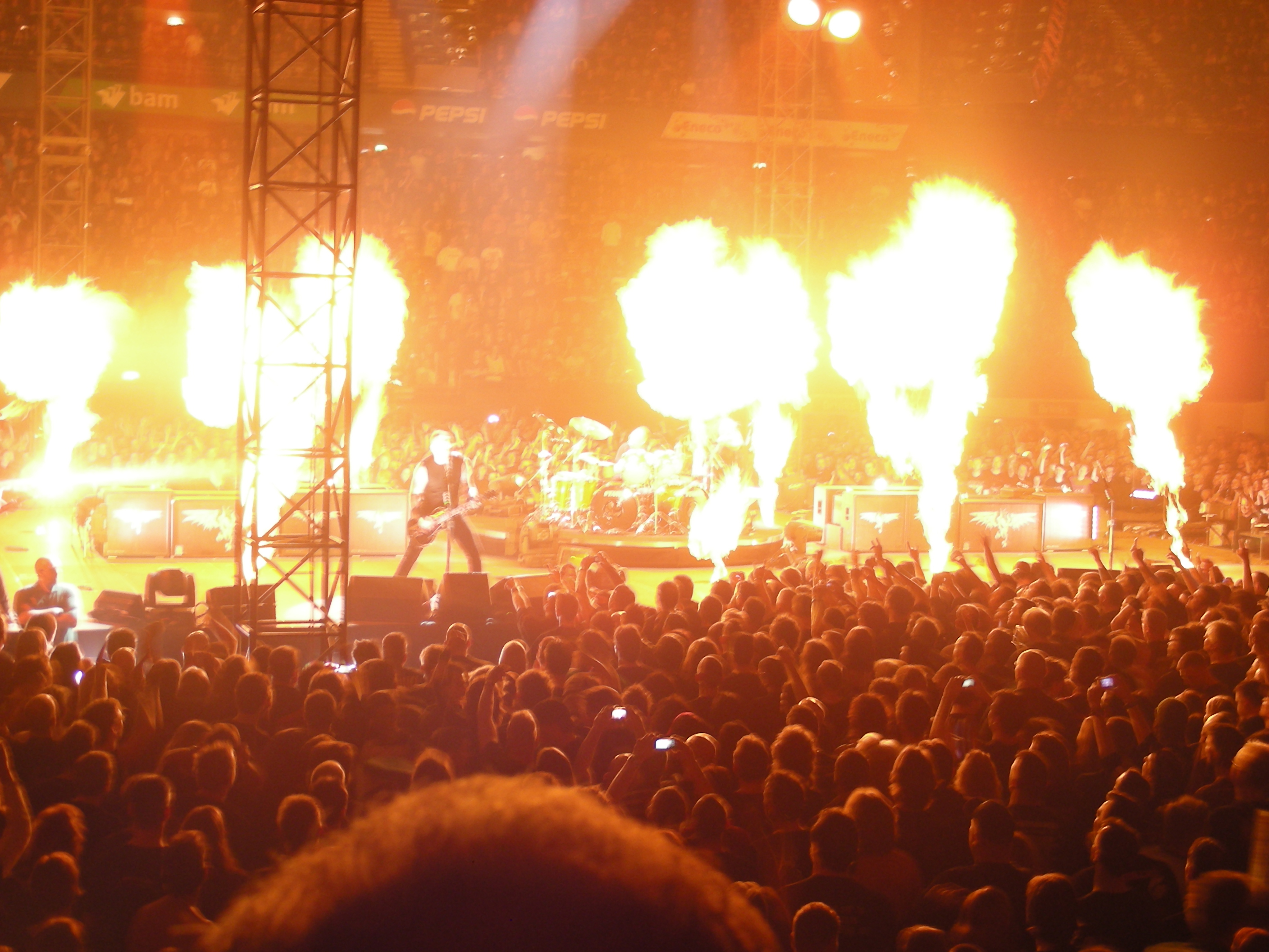 Kirk Hammett at Metallica concert on 2009-03-30 (Death Magnetic Tour, Ahoy Rotterdam)